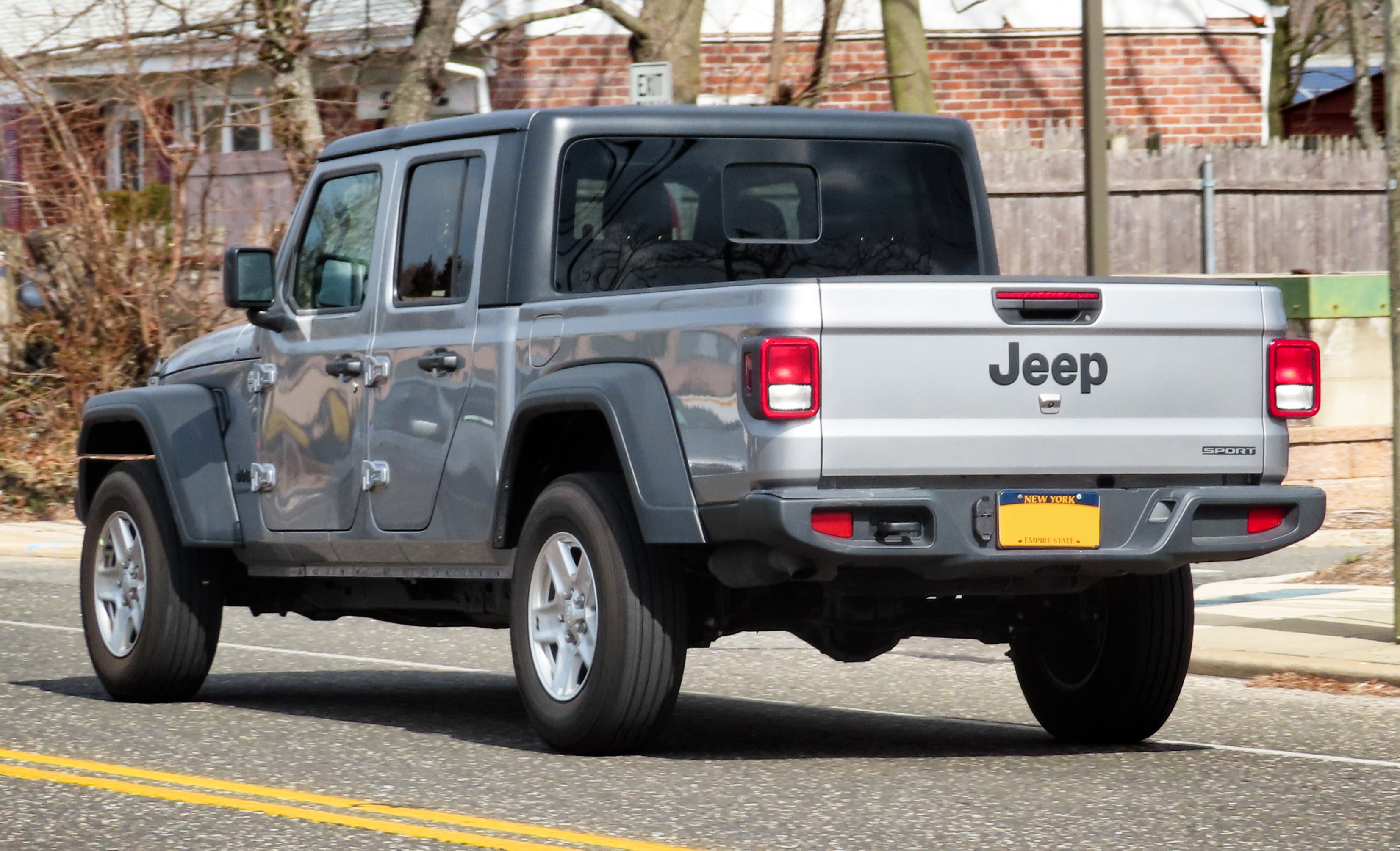 A 2020 Jeep Gladiator Sport photographed in Huntington, New York, USA